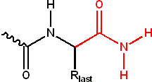 Amidation of the C-terminus of a polypeptide. Made with ChemDraw.